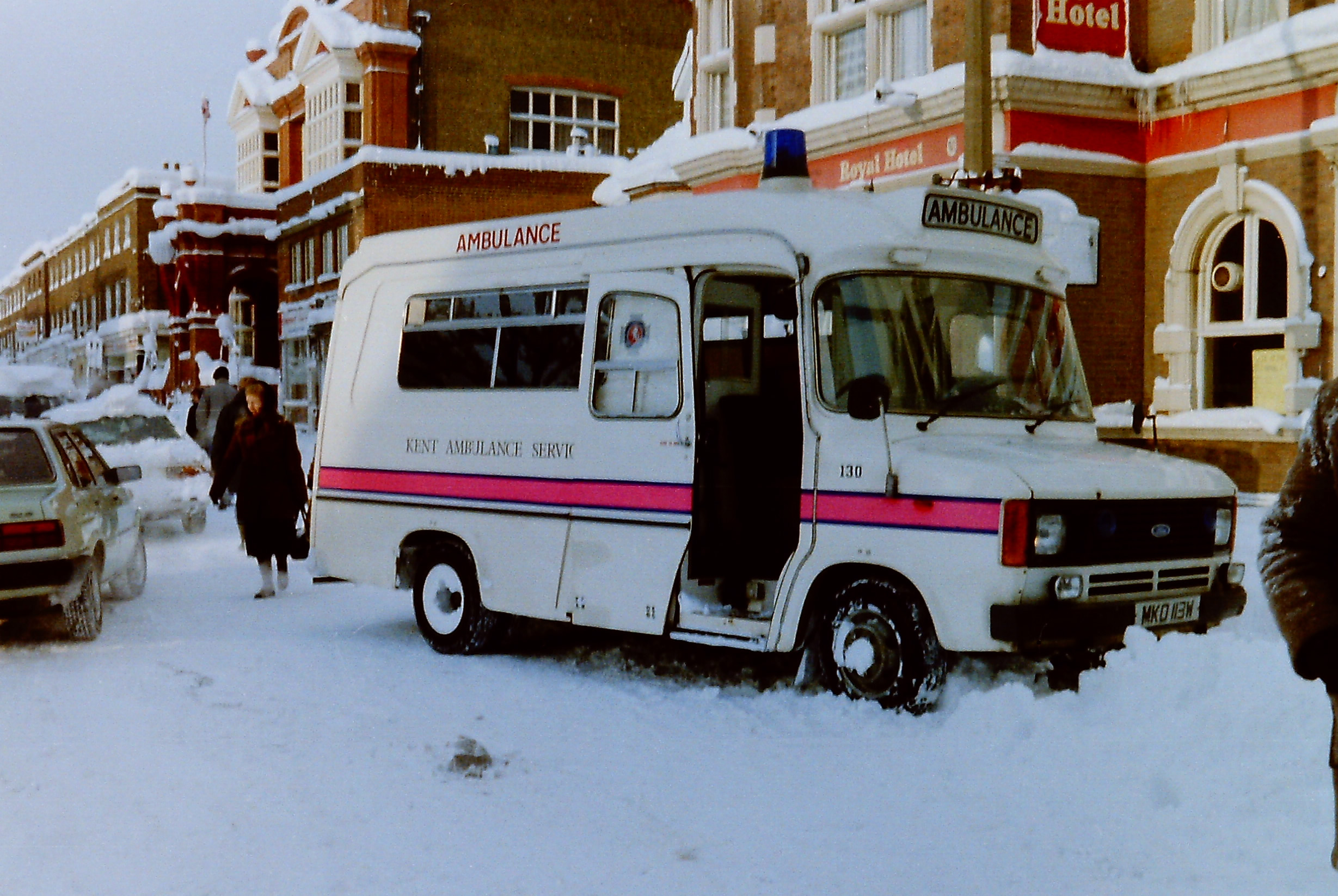 Heavy snow fell overnight on the 11th January 1987. The Isle of Sheppey was cut off from the mainland. An ambulance crew called out to the Broadway, Sheerness.